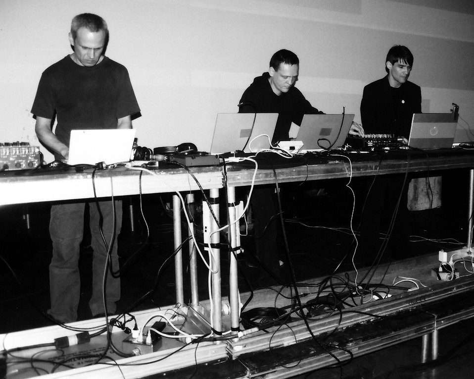 Author: Alex Reynolds Taken at Mutek 2004 (Montréal) Source: [1] © 2004 Alex Reynolds